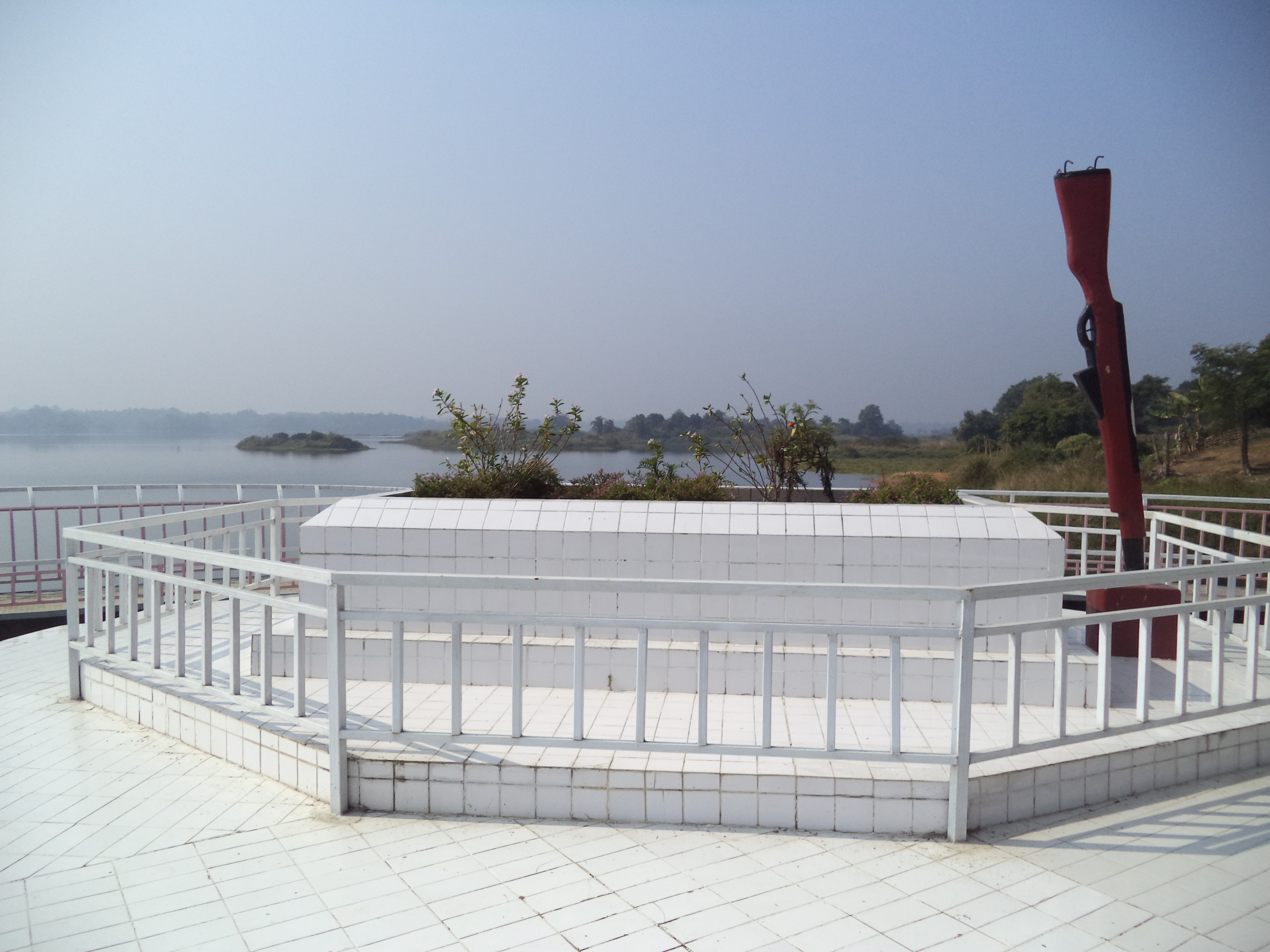 Grave of Shahid Lance Naik Munshi Abdur Rauf Bir Shreshtho at Burighat, Naniarchar, Rangamati